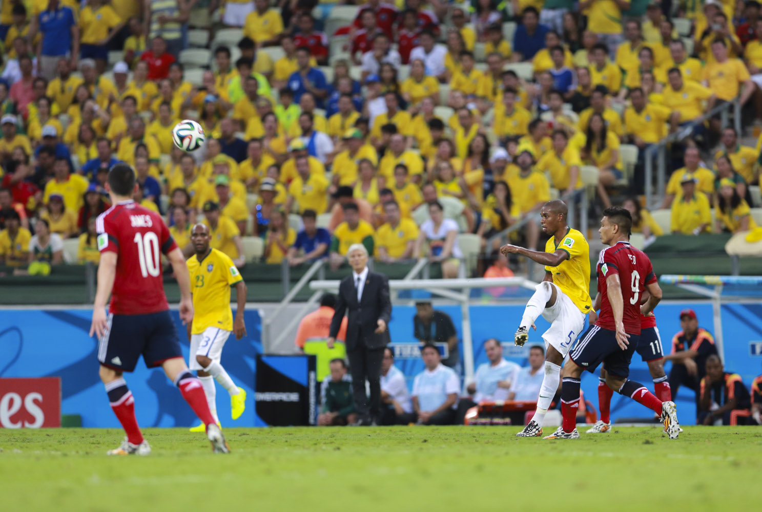 Brazil and Colombia match at the FIFA World Cup 2014-07-04